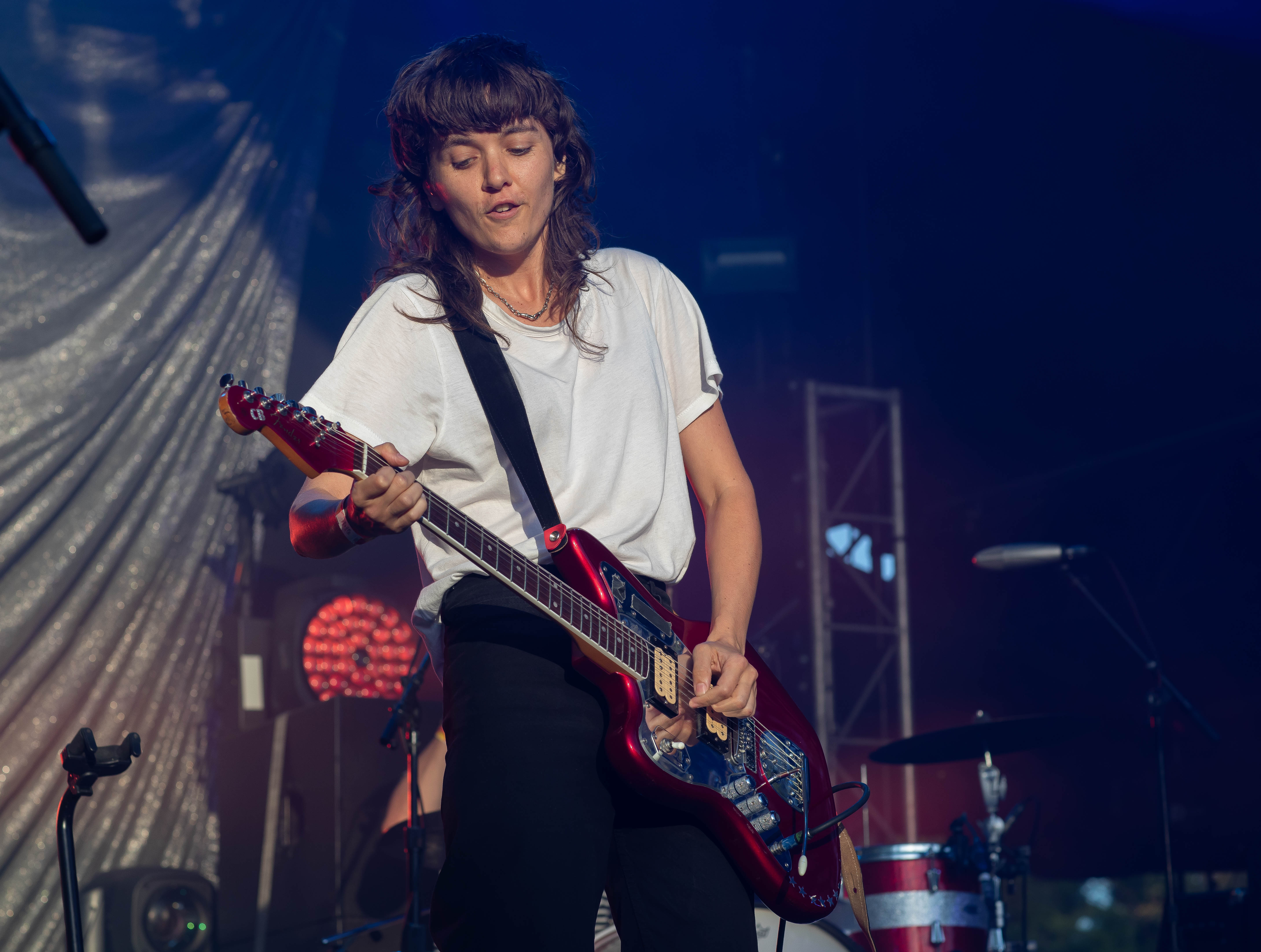 Courtney Barnett